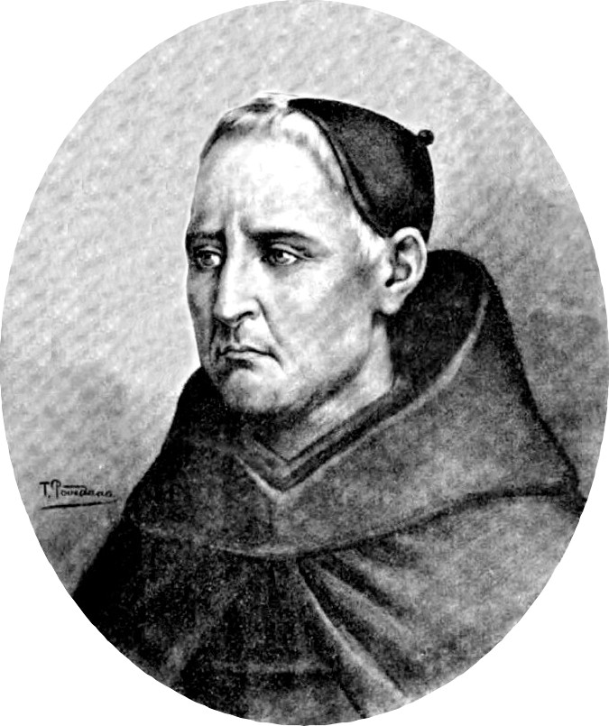 Taken from Revista de Costa Rica del Siglo XIX Public Domain